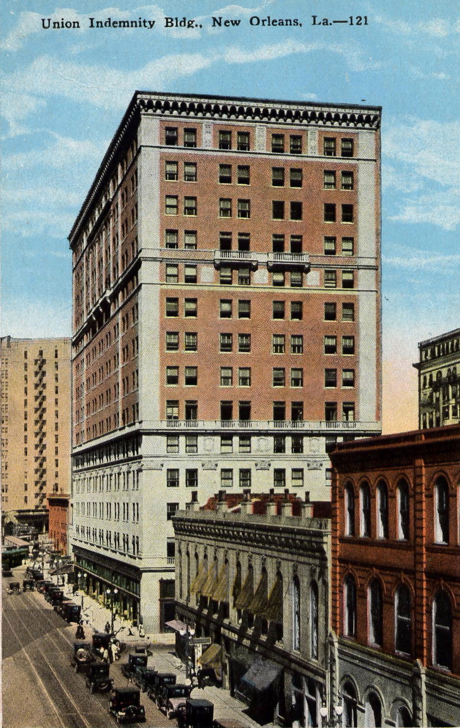 New Orleans: Union Indemnity Building. 1920s postcard view. Text on back of card: "The Union Indemnity building, located at Barrone and Gravier Streets, is fifteen stories high, and cost $1,500,000. It is typical of the modern progress of old New Orleans". Note: The Union Indemnity building, 837 Gravier Street, was built 1924, Moise Goldstein, with Favrot and Livaudais, architects.